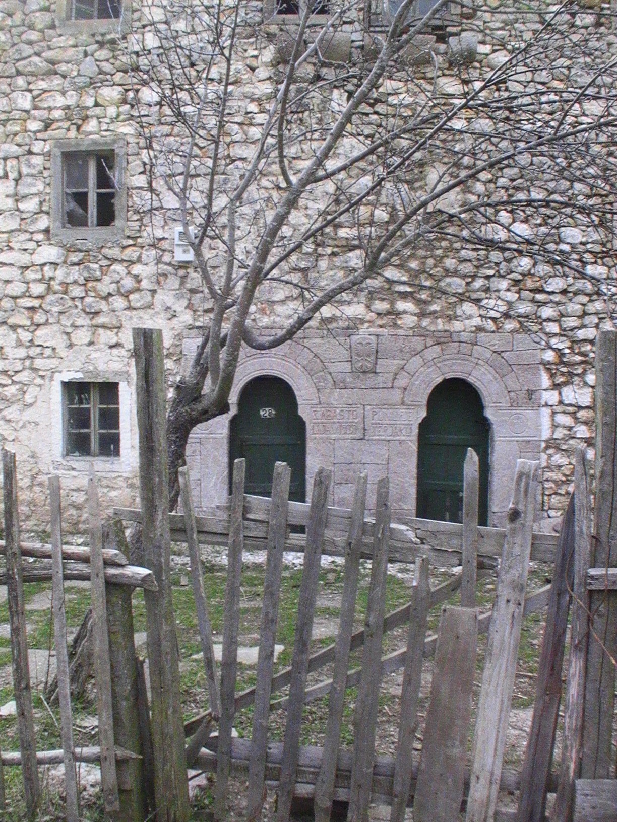 A kulla (fortified tower house) in Lurë, Albania